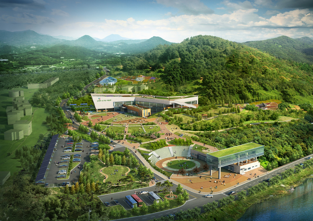 Namyangju City in Gyeonggi Province plans to build an organic museum and center in Joan-myeon, by August 2011. It has been nominated to host the 17th IFOAM (International Federation of Organic Agriculture Movements) Organic World Congress in 2011, which will be the first time ever the event has been held in Asia. This indicates the potential growth of both Korea's organic agriculture and the development of environmentally friendly farms. The museum and center will have a 3-D video room, kitchen, an organic restaurant, wholesale market and exhibition area. IFOAM is an organization that aims to promote the practice of organic farming, the preservation of agricultural ecosystems and the production of healthy nutrition.